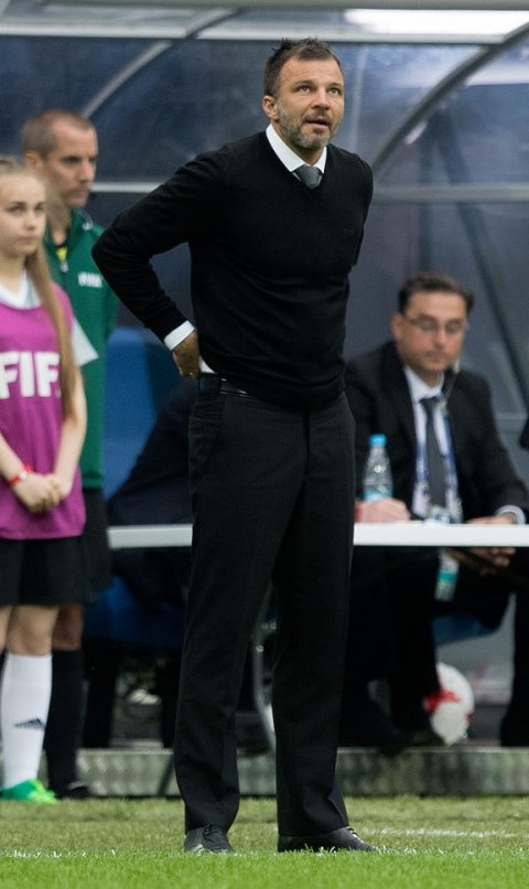 Anthony Hudson